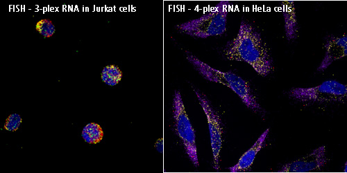 Multiplex ViewRNA FISH Assay in Jurkat and HeLa cells